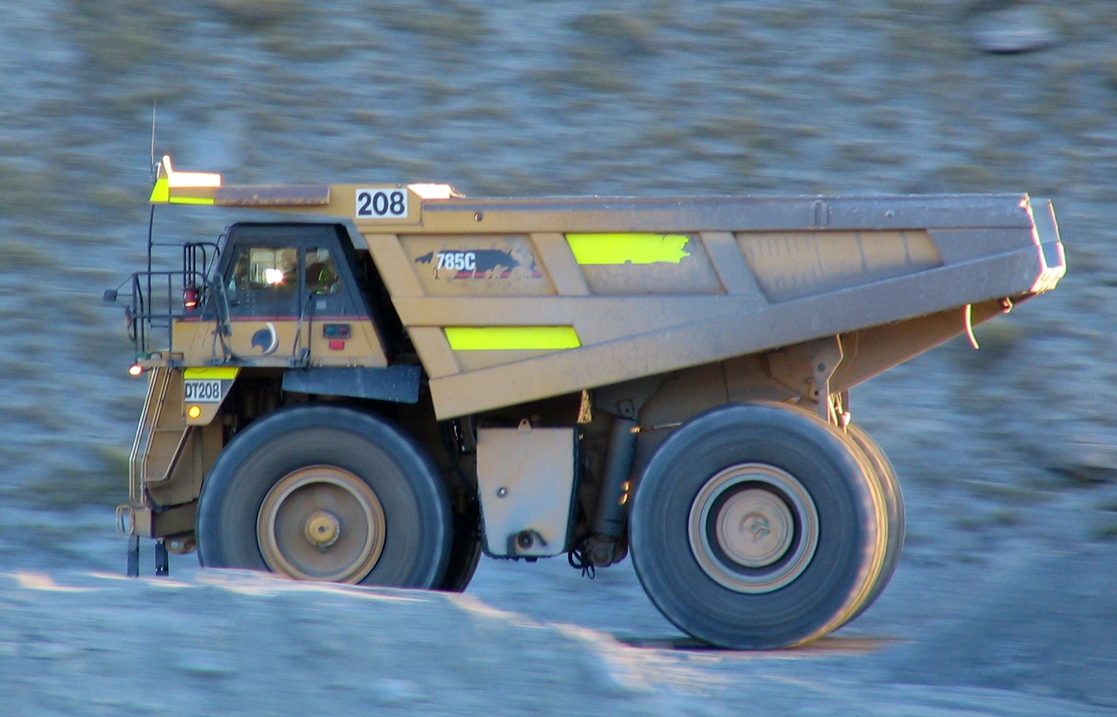 OceanaGold mining truck working the Macraes mine, Otago, New Zealand. Caterpillar 785C